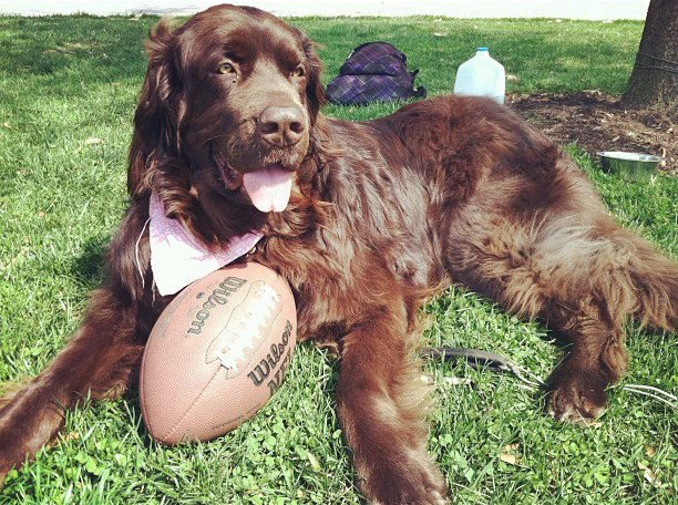 Adult Brown Newfoundland Dog